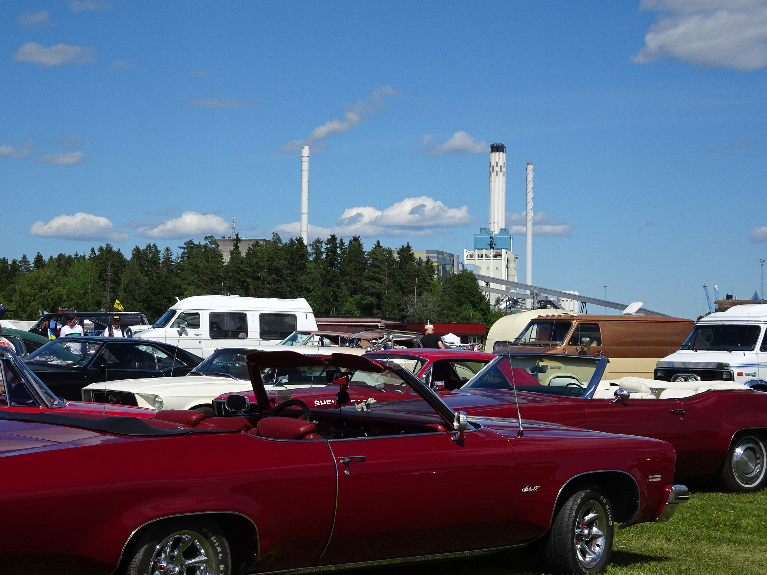 Västerås summer meet 2017. American vintage cars at Johannisbergs airport, Västerås, Sweden